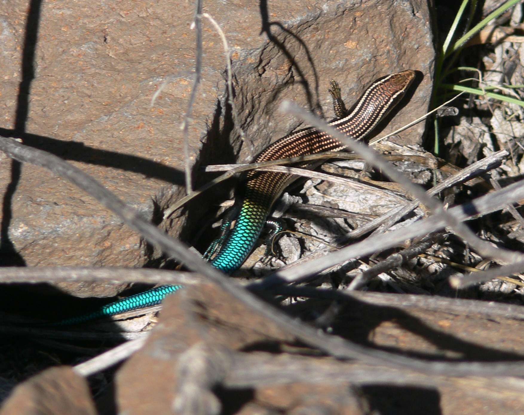 Gran Canaria Skink, photoed up in the mountainsof the island in february 2010